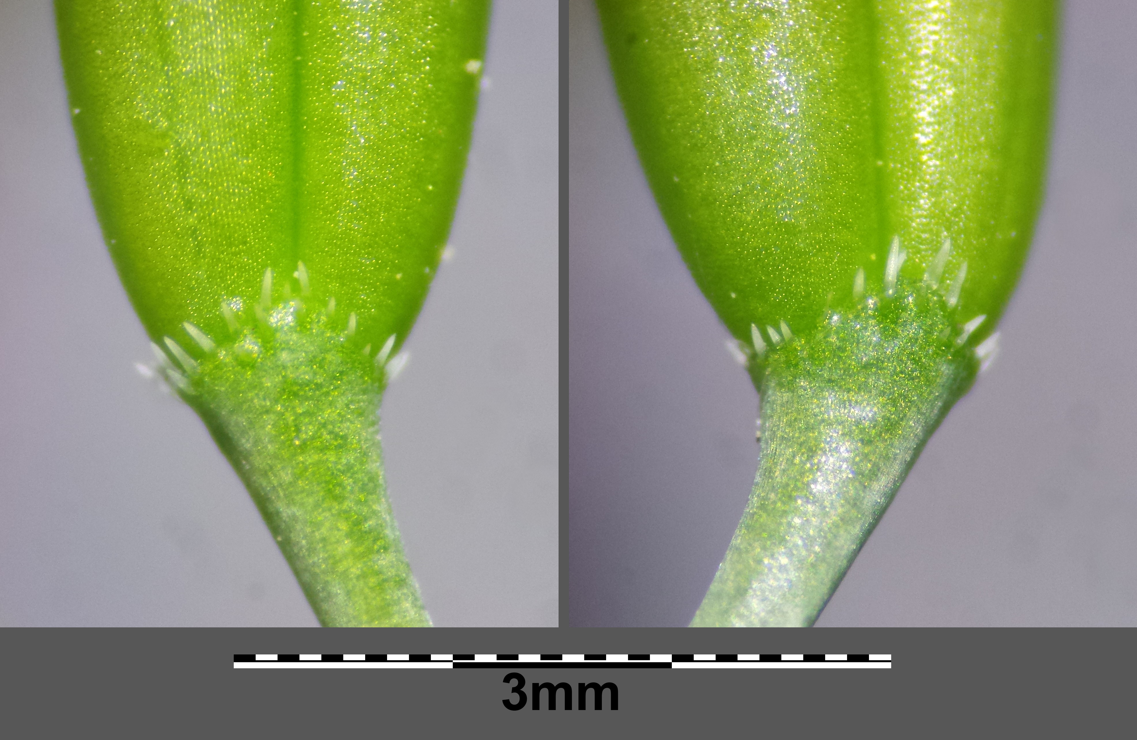 Base of the fruit with hairs Taxonym: Anthriscus sylvestris ss Fischer et al. EfÖLS 2008 ISBN 978-3-85474-187-9 Location: near Steinberg near Niederhollabrunn, district Korneuburg, Lower Austria - ca. 300 m a.s.l. Habitat: wayside